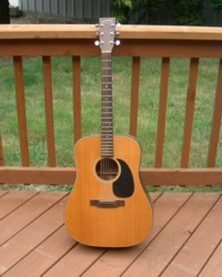 Personally owned Takamine 1978 F340S, pic taken by WP contributor fireproeng Sep 2007, for WP article Takamine Guitars